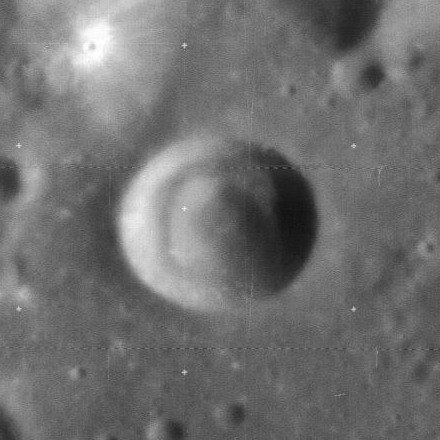 Leakey, on the moon.